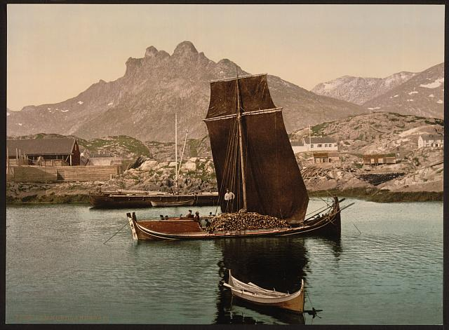 Nordlandsbåt ship, outside of the town of Svolvær in the Lofoten district, Nordland county, Norway.